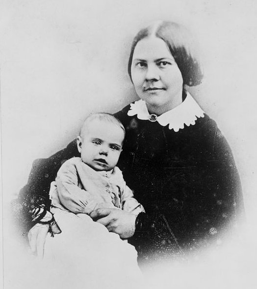 A scan of a photographic portrait made in Boston of Lucy Stone and her infant daughter Alice Stone Blackwell